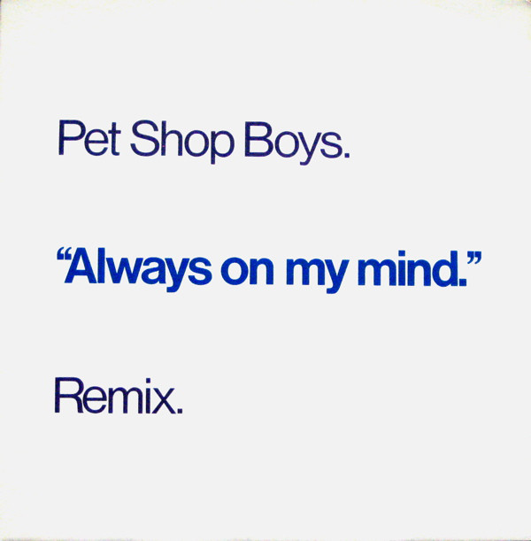 Picture sleeve of "Always on My Mind" (remix) by Pet Shop Boys; distributed in UK and most of Europe